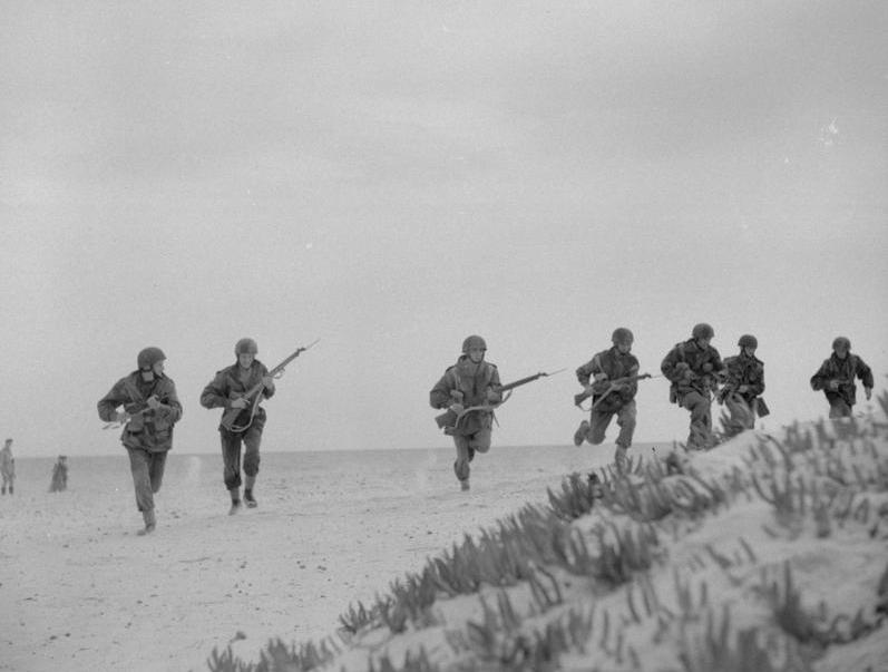 British Airborne soldiers on an assault course at a parachute school in North Africa, 7 August 1943.